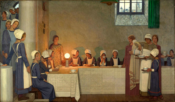 Acts of Mercy: Orphans I, painting by Frederick Cayley Robinson, 1915, Wellcome Library, London